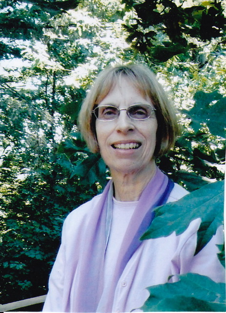 Well respected scholar focusing on the importance of women studies.